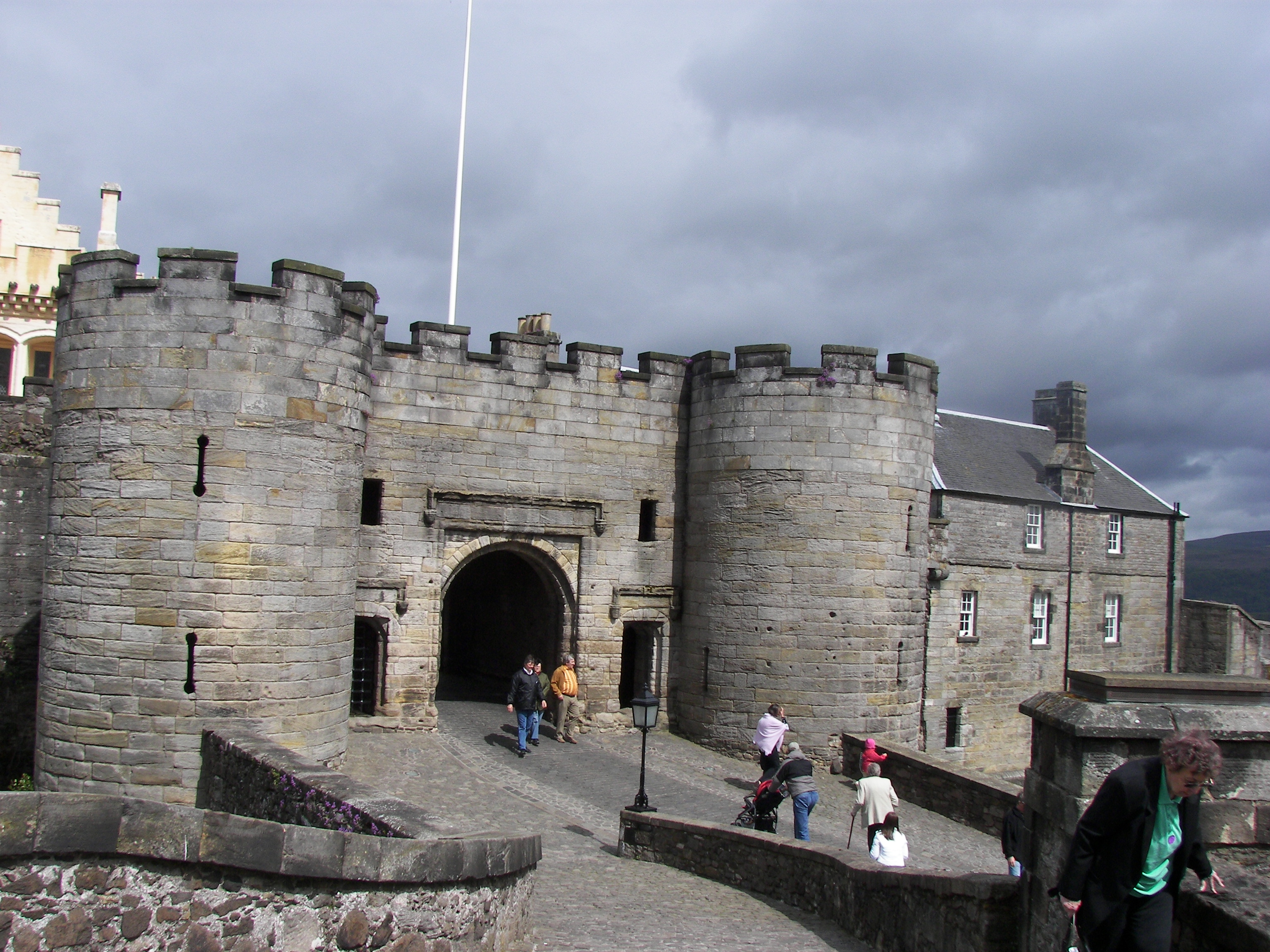 Forework Gatehouse of Stirling Castle.